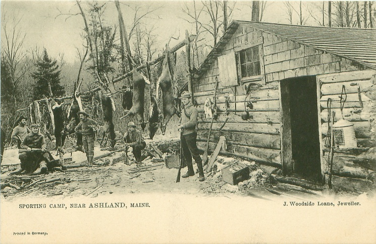 "Sporting Camp, Near Ashland, Maine" u/b, grey/black, PRINTED IN GERMANY, pub. J. WOODSIDE LOANE, JEWELLER.